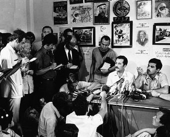 Ghassau Kanafani in a press conference after Dawson's field hijackings, 15 September 1970